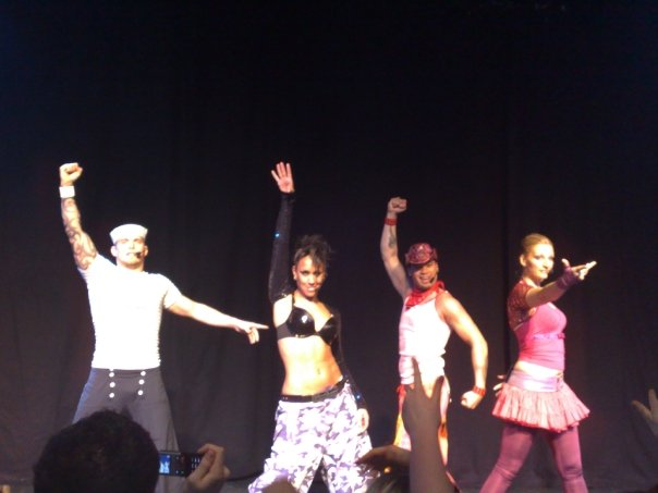 Vengaboys after a set on 53 degrees in preston, 2008.